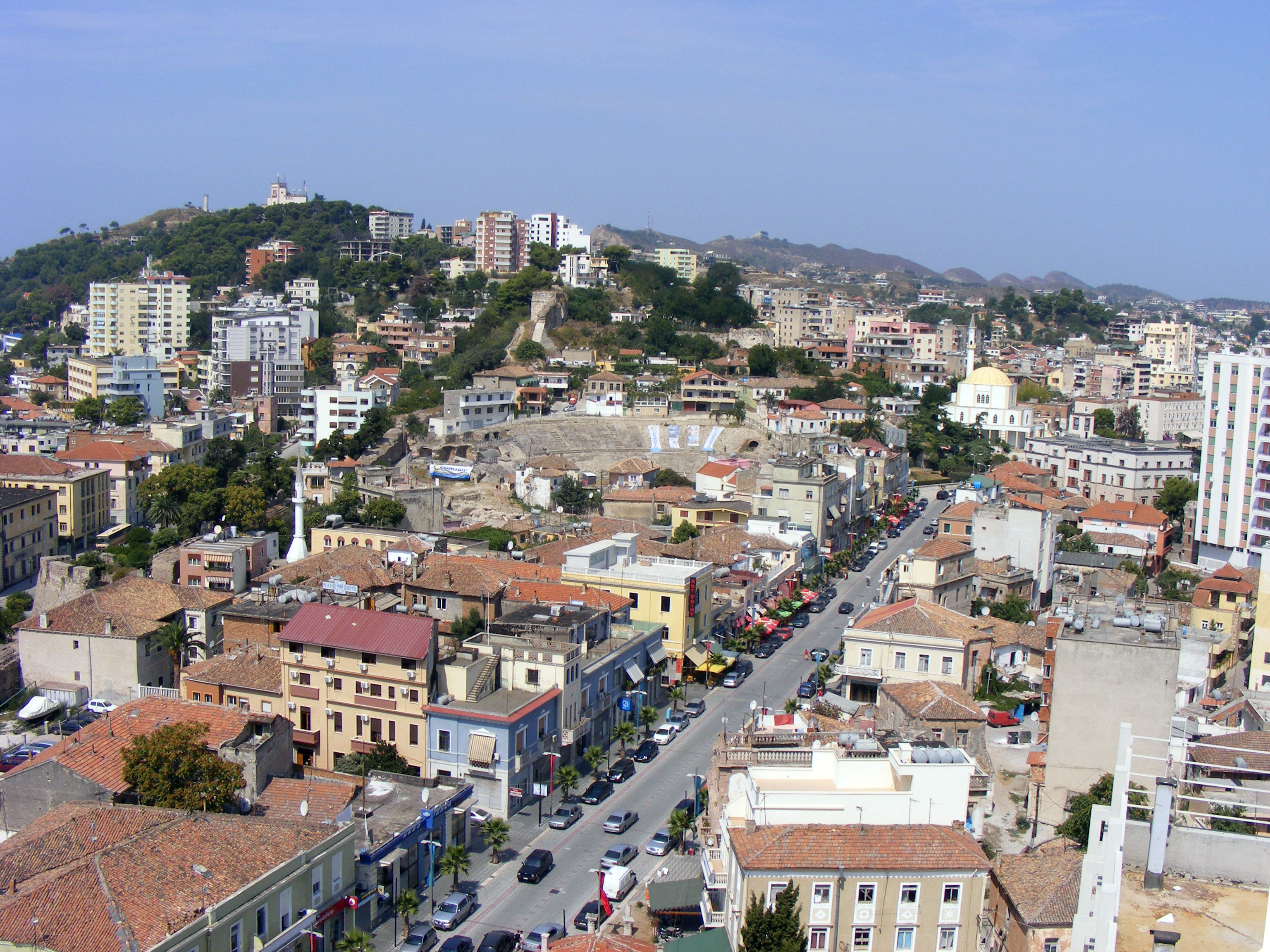 Pogled iz Fly restorana